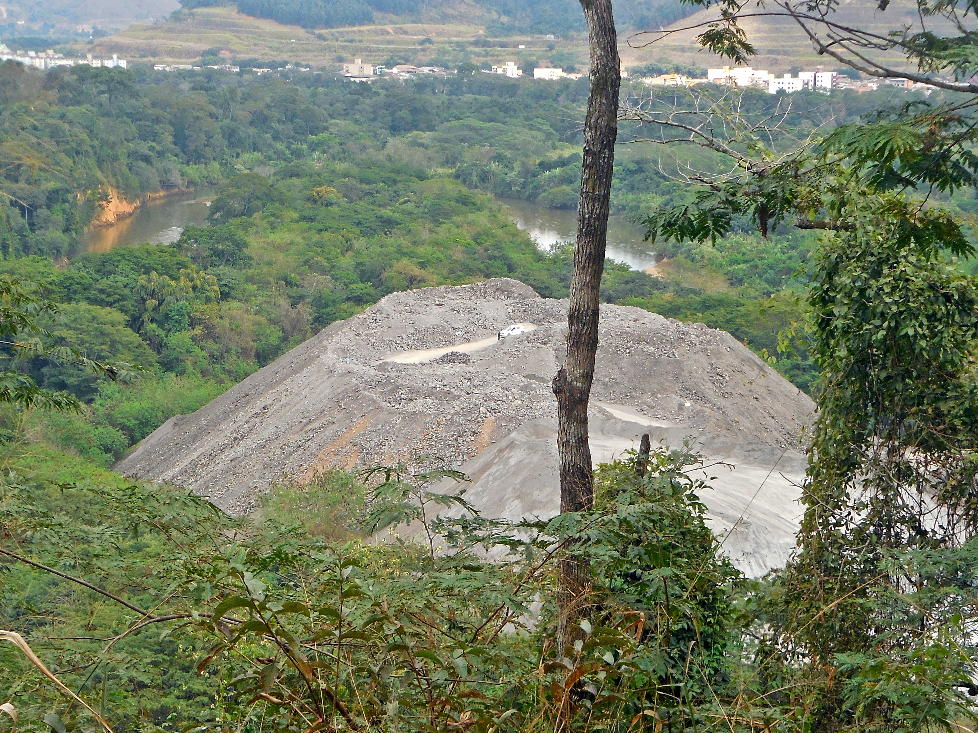 Silicon slag of the Usiminas with the Piracicaba River in the background, in Ipatinga, Minas Gerais, Brazil.